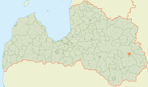 Location map of Vērēmi Parish, Latvia. Latgaļu: Veremu pogosta zemislopa.